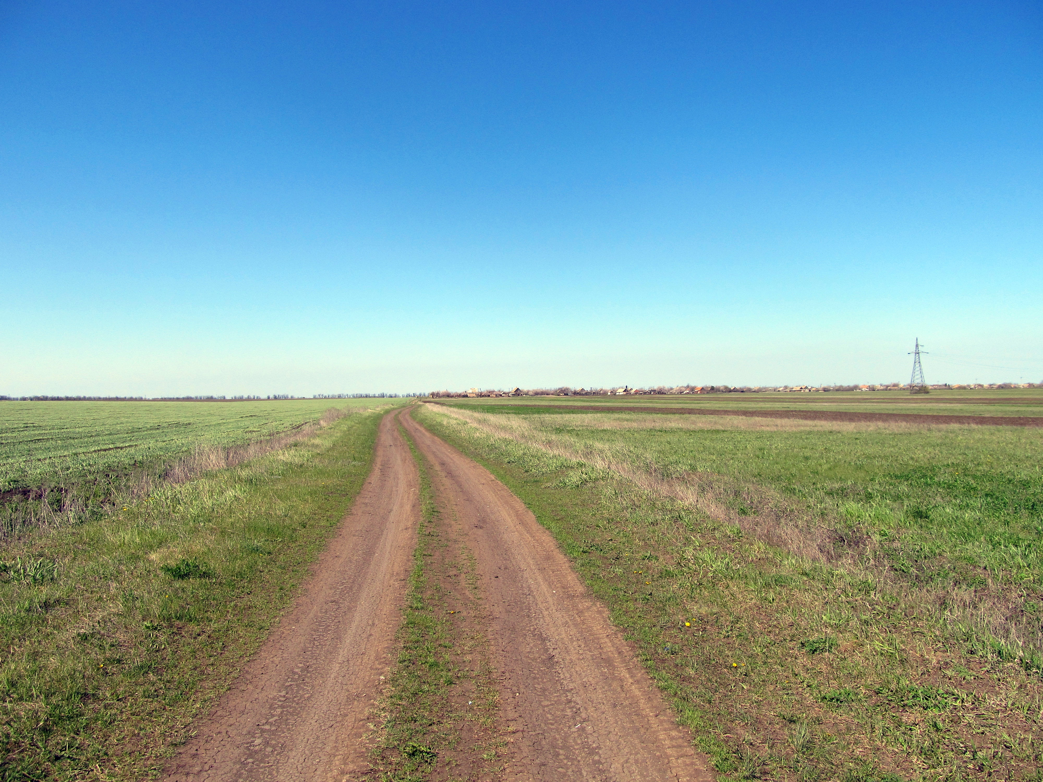 Obilne, Melitopolskyi Raion, Zaporizhia Oblast, Ukraine